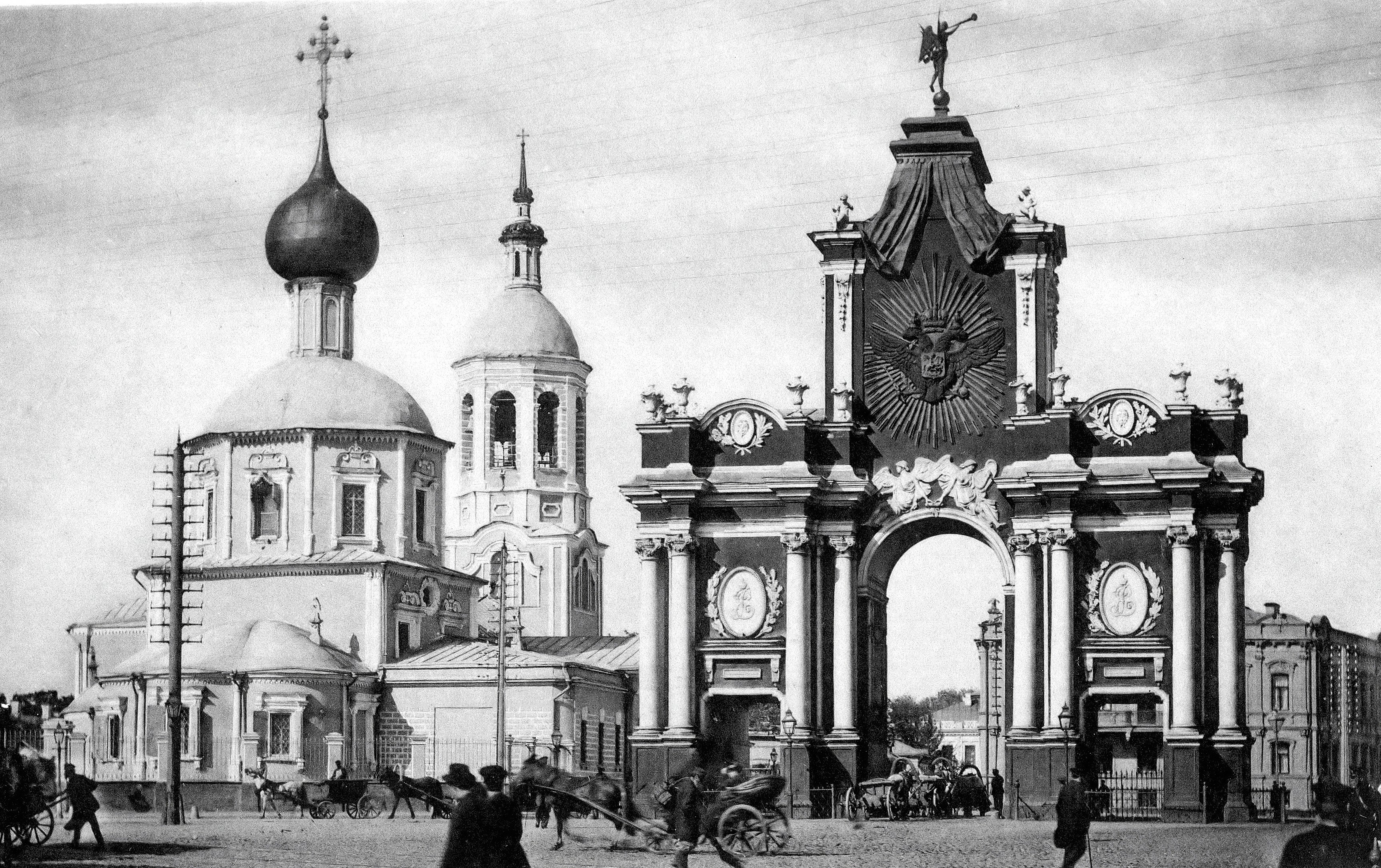 Red Gate and Church of the Three Holy Hierarchs — in Moscow (early 1900s)